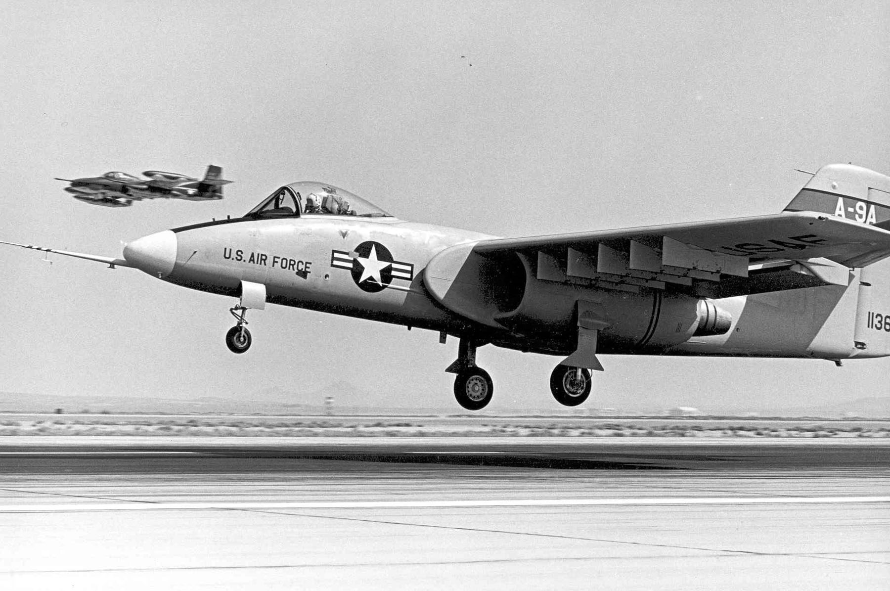 Northrop A-9A lost to A-10 Thunderbolt II